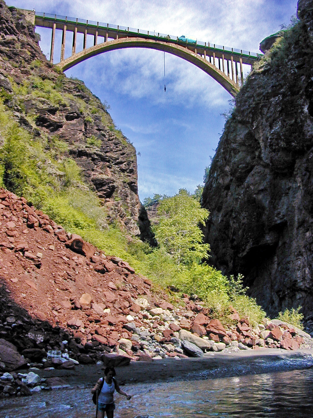 Daluis (06), Var valley, Mariés bridge, bunhee Jumping.